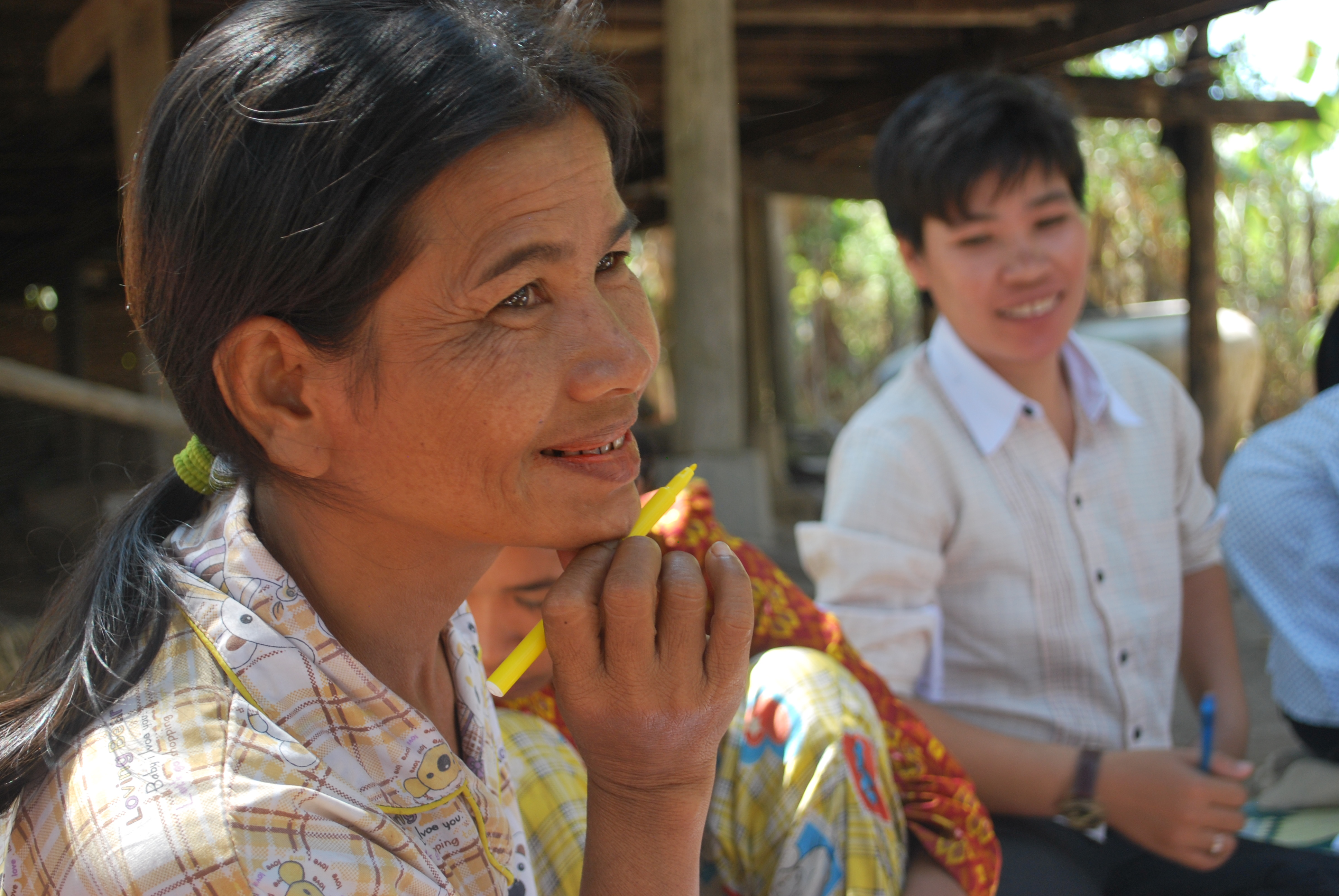 At a focus group discussion in rural Cambodia, a woman with a disability shares her opinion about barriers to accessing gender-based violence services. The focus group informed a research project run by IWDA, with support from AusAID through the Australian Development Research Award Scheme. Photo: Kathy Oliver / IWDA To request copyright use and access to hi-res versions of this photo, contact the owner/organisation of this photograph.